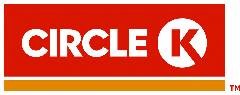 Circle K logo